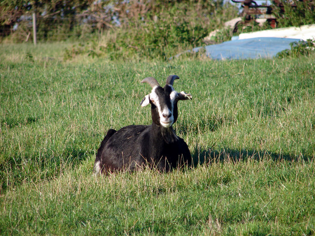 Goat at Offley, near to Hitchin, Hertfordshire, Great Britain. One of a herd at the farm here - looks really 'chilled-out'!